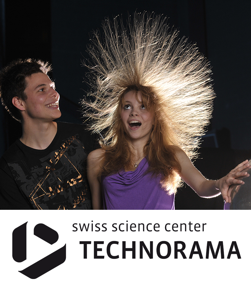 Image foto Swiss Science Center Technorama